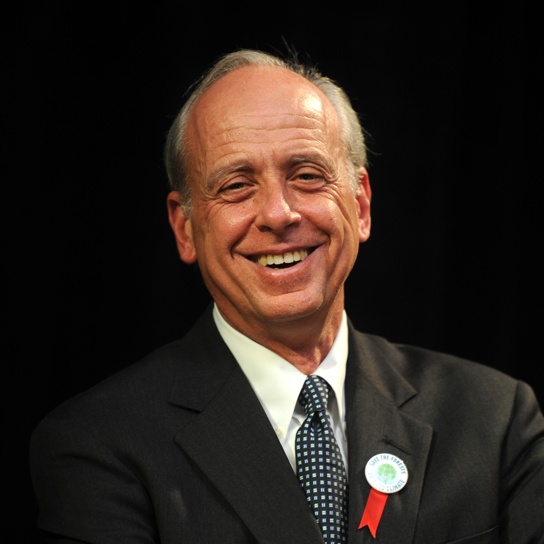 Jeffrey S Horowitz AD Partners media headshot